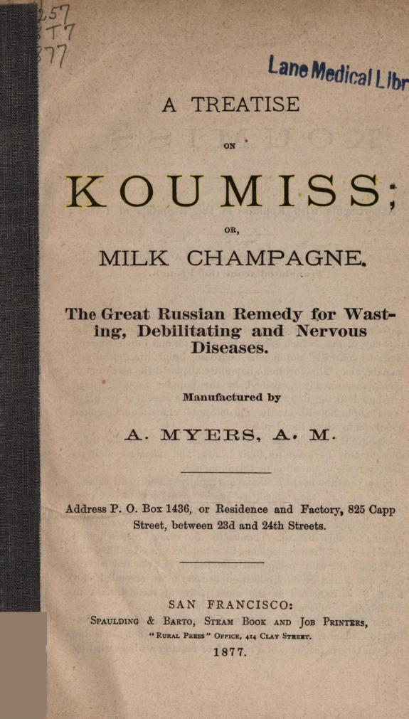 Scan of the title page of 1877 book A Treaty on Koumiss' or, Milk Champagne: The great Russian remedy for wasting, debilitating, and nervous diseases. Written by A. Meyers, published in San Francisco, U.S.A.